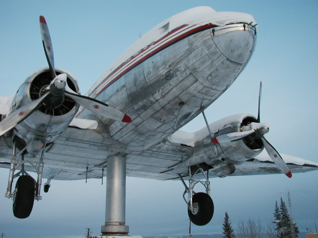 The Douglas DC-3 (CF-CPY) plane that now serves as a weather vane at Whitehorse International Airport, Yukon, Canada).